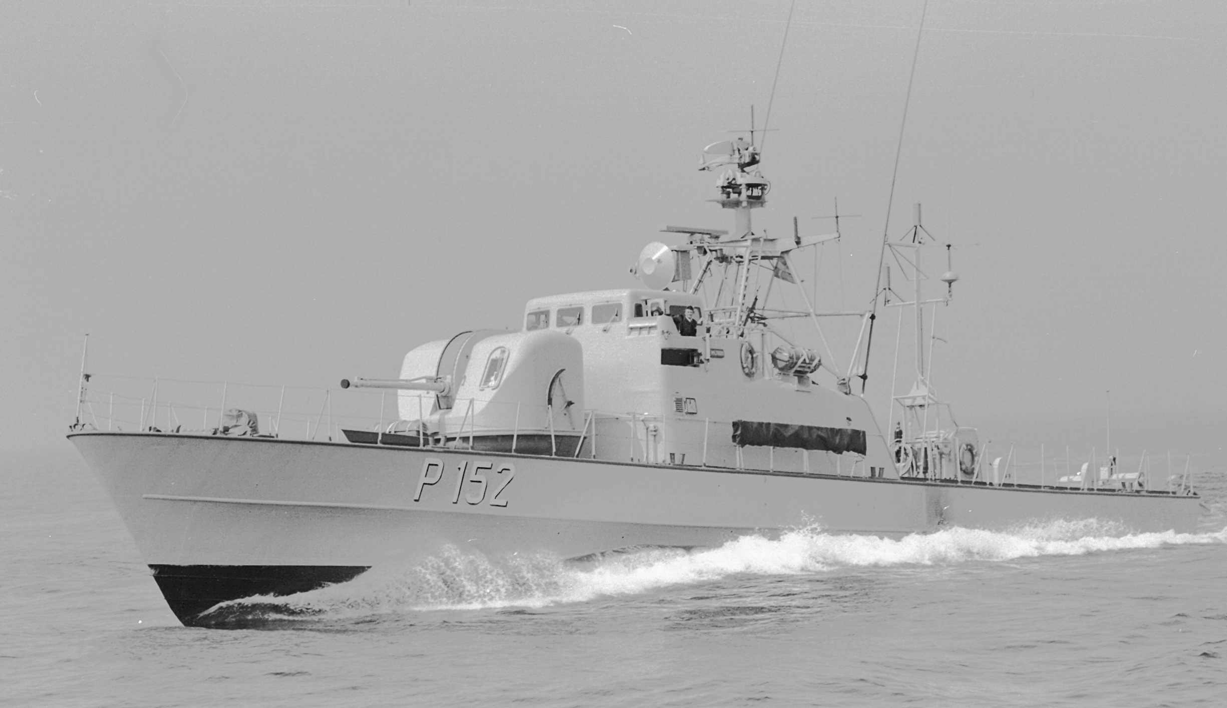 The Swedish Fast Patrol HMS Munin (P152) Boat during an exercise summer of 1980